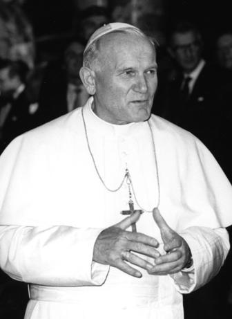 Vom 15. bis 19. November 1980 besuchte Seine Heiligkeit Papst Johannes Paul II. die Bundesrepublik Deutschland. Auf Einladung von Bundespräsident Karl Carstens hat der Papst seinen pastoralen Besuch mit einem offiziellen in Bonn verbunden. Am 15. November gab der Bundespräsident einen Empfang zu Ehren Seiner Heiligkeit auf Schloß Augustusburg in Brühl bei Bonn. Dort führte Papst Johannes Paul II. auch ein Gespräch mit Bundeskanzler Helmut Schmidt. Gleichzeitig traf Bundesaußenminister Hans-Dietrich Genscher mit Kardinal-Staatssekretär Casaroli zusammen. Im Anschluß an den offiziellen Teil begab sich der Papst auf den Bonner Münsterplatz, um dort eine Ansprache zu halten. Ferner bestand der pastorale Teil aus Besuchen in Köln, Osnabrück, Mainz, Fulda, Altötting und München. In allen diesen Städten hielt Papst Johannes Paul II. die Heilige Messe. Eigentlicher Anlaß seines Aufenthaltes in der Bundesrepublik war der 700. Todestag von Albertus Magnus (1193-1280), dessen Grab der Papst in Köln besuchte. Bundespräsident Karl Carstens und Papst Johannes Paul II. auf Schloß Augustusburg in Brühl.